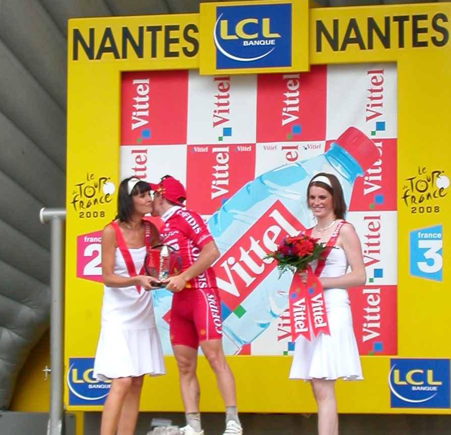 Samuel Dumoulin winner of the Tour de France 2008's 3rd stage in Nantes